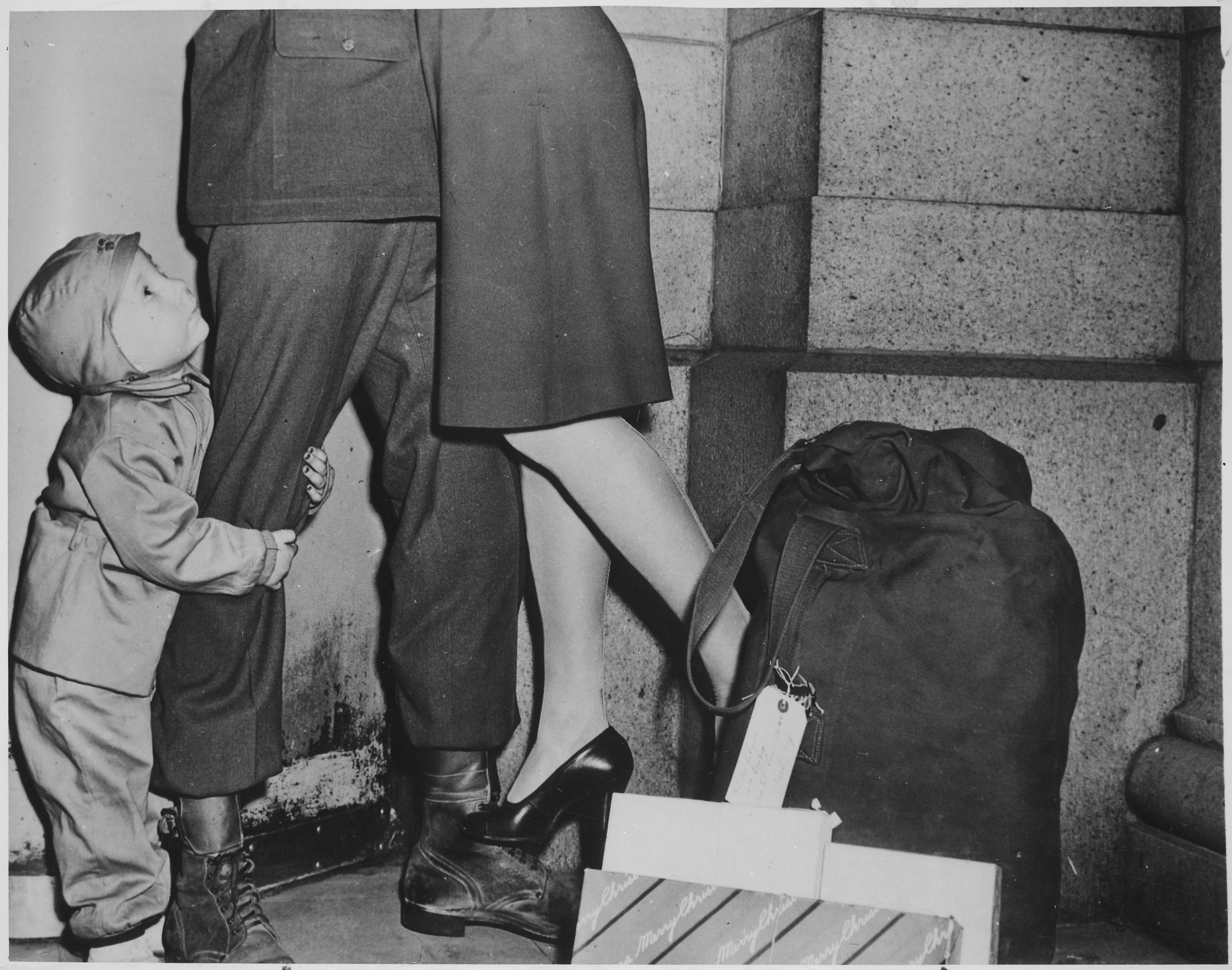 Original Caption: A youngster, clutching his soldier father, gazes upward while the latter lifts his wife from the ground to wish her a `Merry Christmas.' The serviceman is one of those fortunate enough to be able to get home for the holidays. U.S. National Archives' Local Identifier: NWDNS-208-AA-2F-20 From: Series: Photographs of the Allies and Axis, compiled 1942 – 1945 (Record Group 208) Created by: Office for Emergency Management. Office of War Information. Overseas Operations Branch. New York Office. News and Features Bureau. (12/17/1942 - 09/15/1945) Production Date: 12/1944 Subjects: Relaxation World War, 1939-1945 Persistent URL: Repository: Still Pictures Unit at the National Archives at College Park (College Park, MD) For information about ordering reproductions of photographs held by the U.S. National Archives' Still Picture Unit, visit: Reproductions may be ordered via an independent vendor. The U.S. National Archives maintains a list of vendors at Access Restrictions: Unrestricted Use Restrictions: Unrestricted